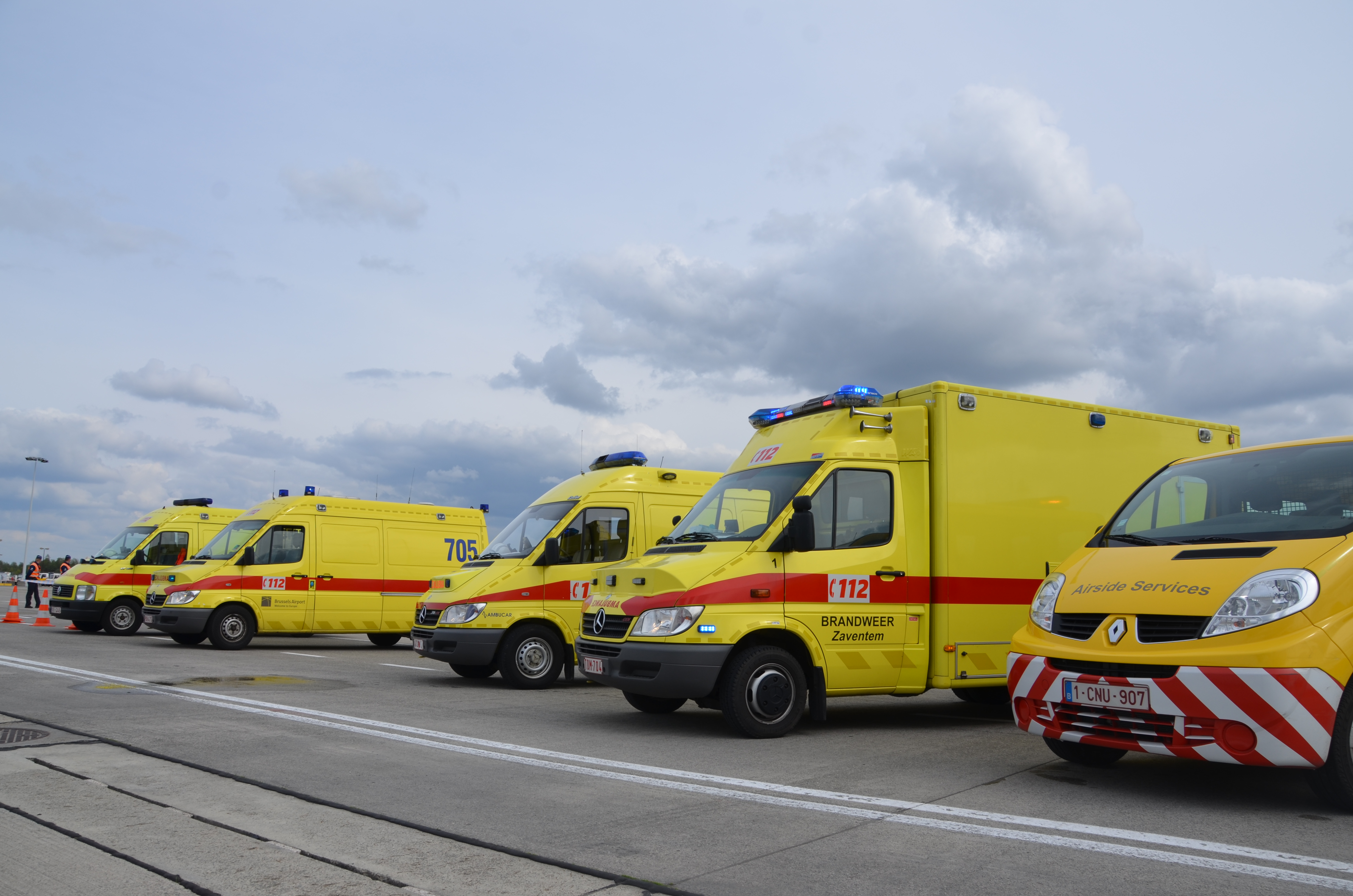 Saturday, 27th of April, we organized a large-scale emergency drill at Brussels Airport to test and evaluate the preparedness of our airport emergency services in the event of an incident. Read more on